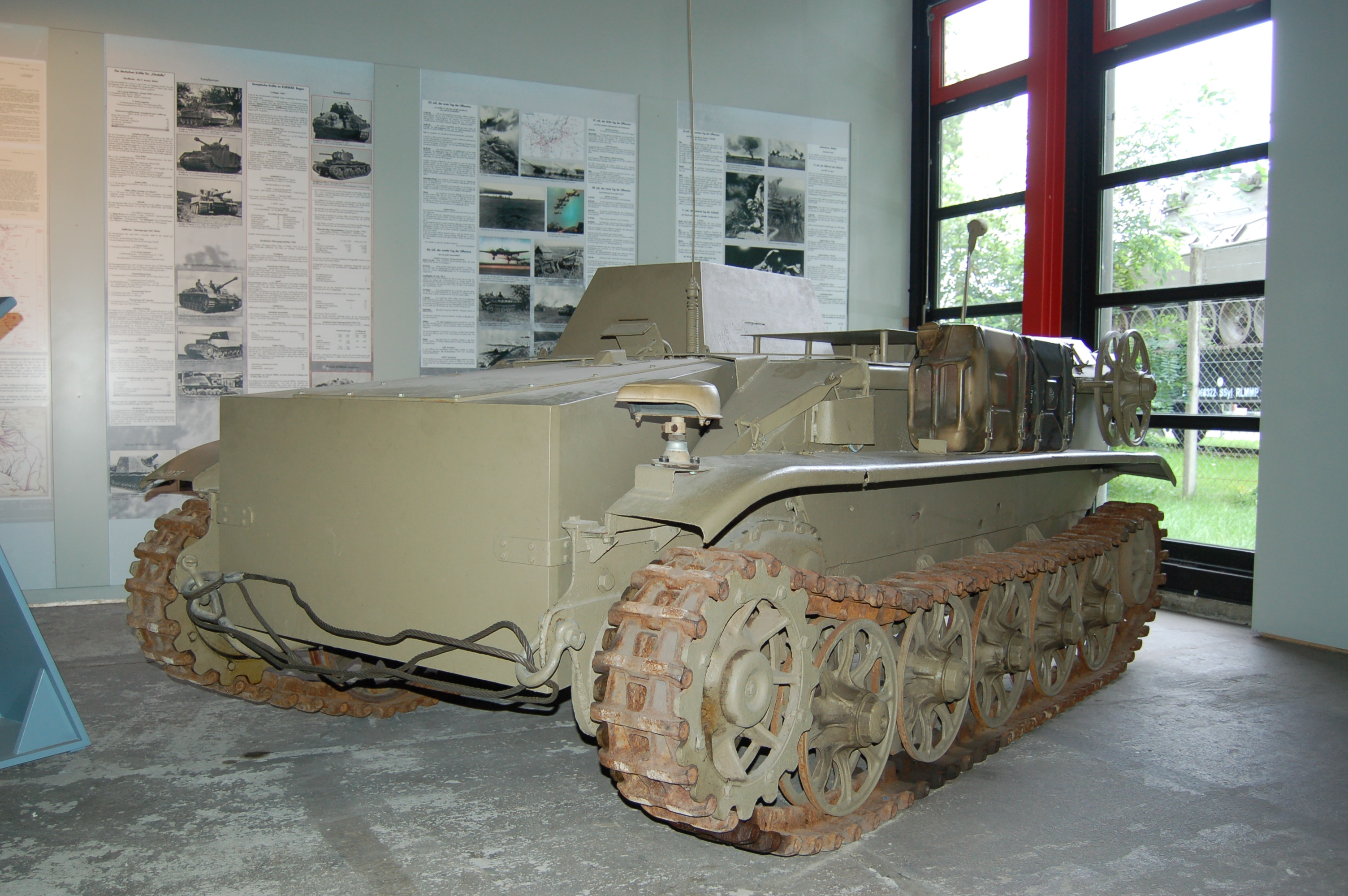 Borgward IV self propelled charge. German Tank Museum, Munster, Lower Saxony, Germany.